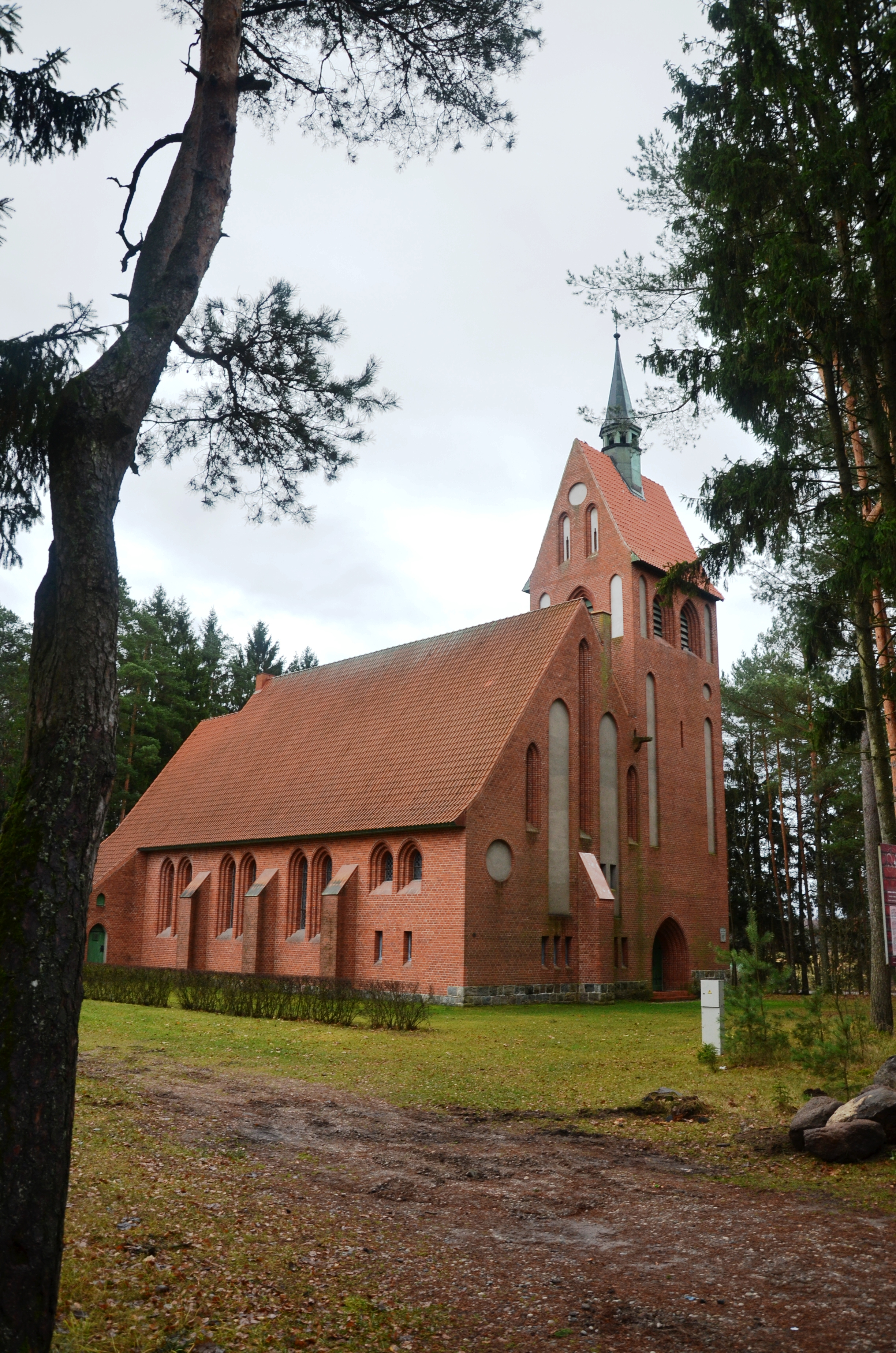 Vanagu baznycia.